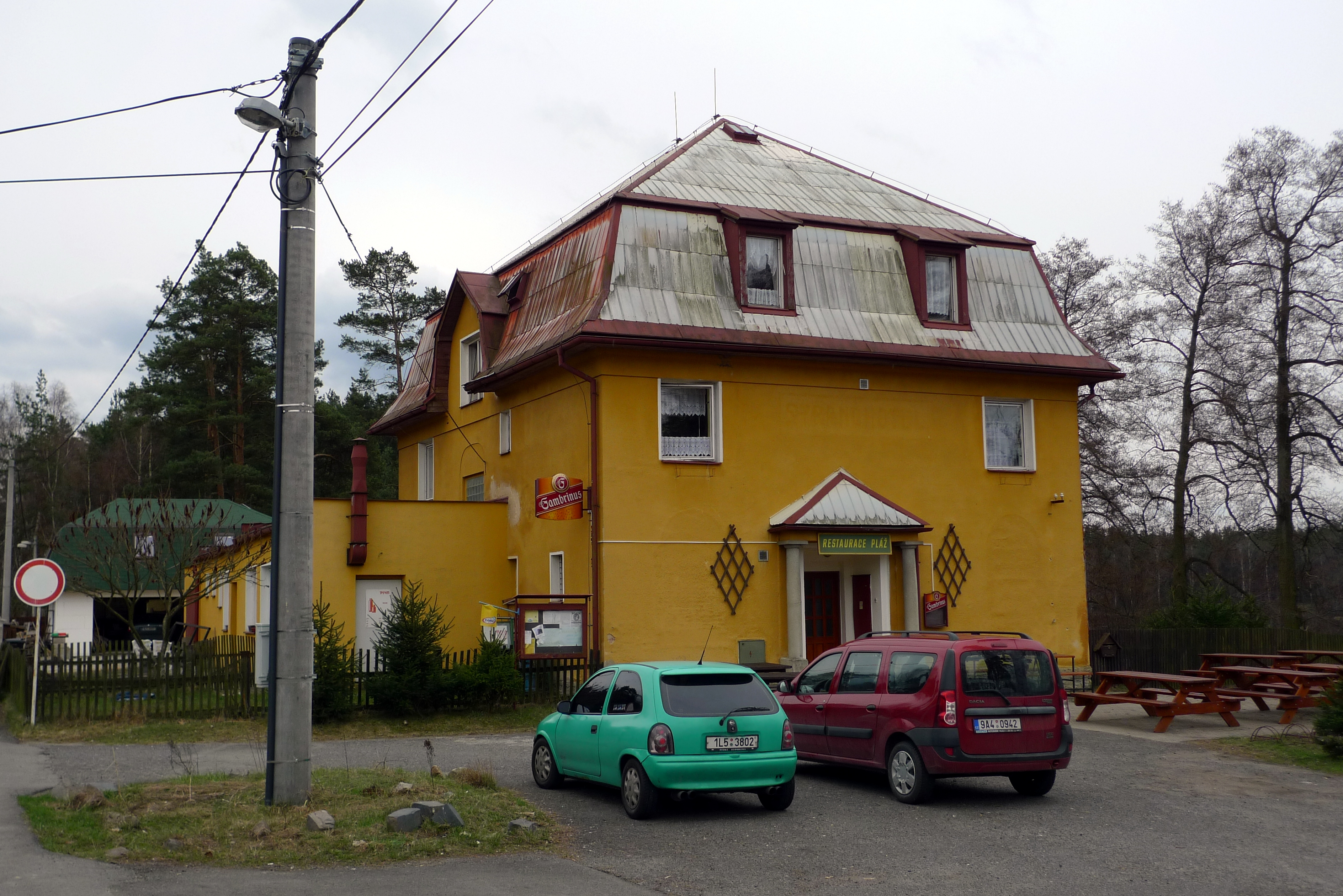 Hotel Pláž in Ralsko-Hradčany, Czech Republic Česky: Hotel pláž v Ralsku-Hradčany